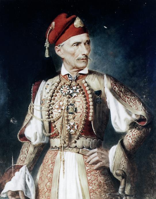 Athanasios (Thanasoylas) Valtinos – (1802-1870) Greek Fighter of the 1821 Revolution Θανασούλας Βαλτινός